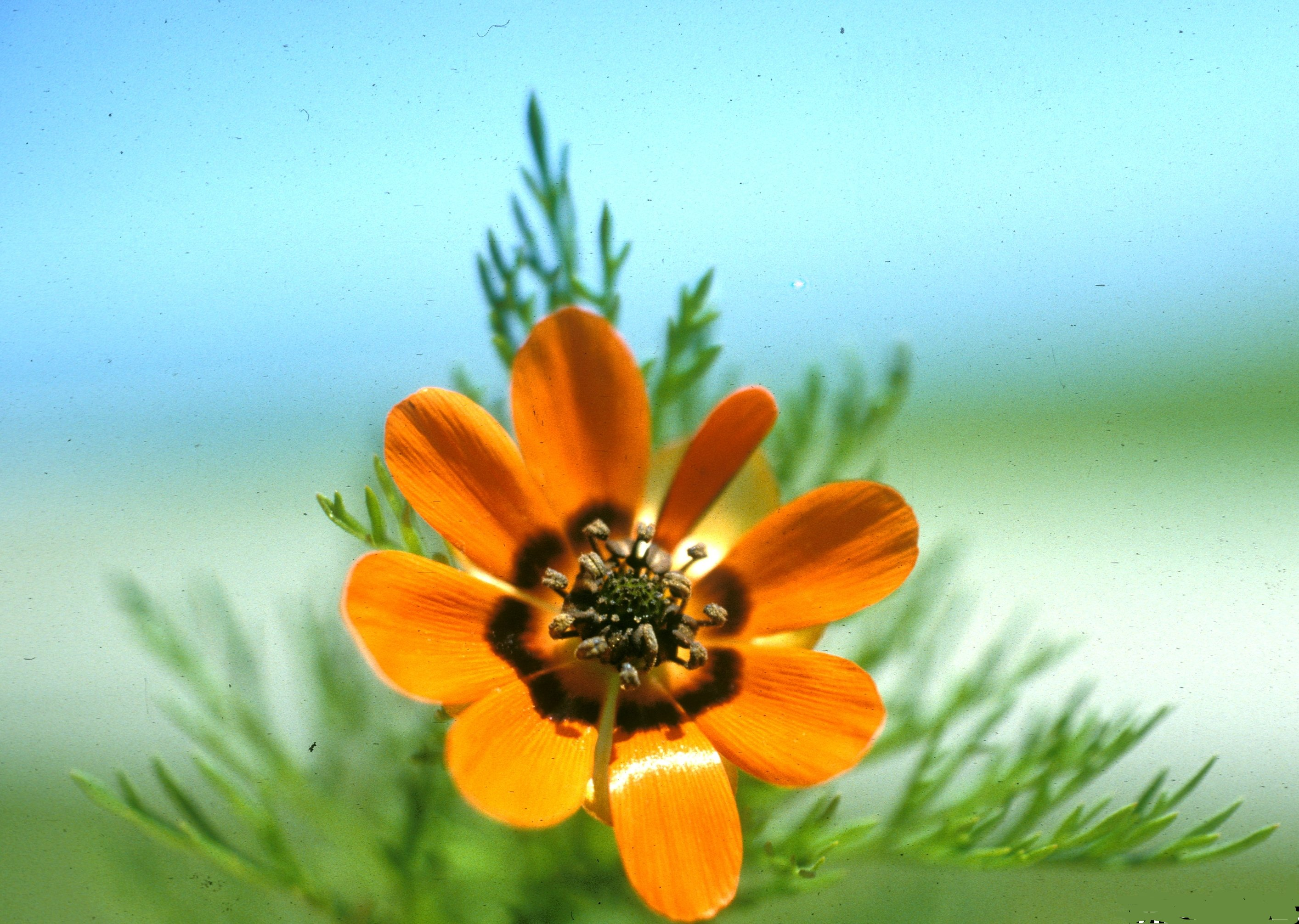 Flower of Summer pheasant's eye (Adonis aestivalis)